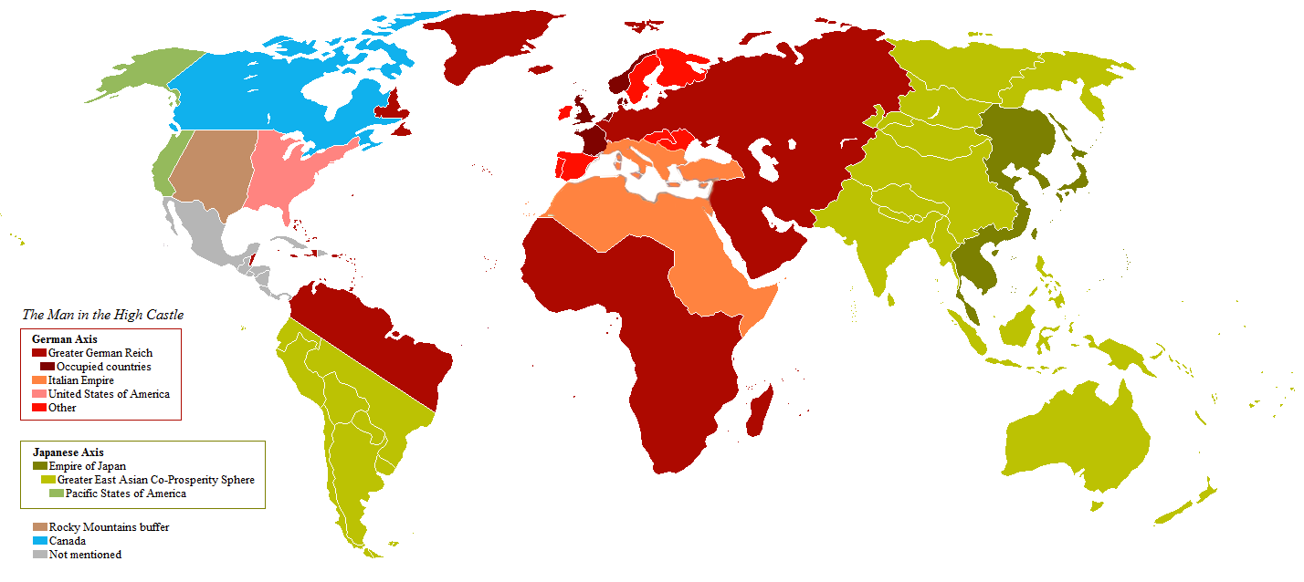 Alternate history world map of Philip K. Dick's The Man In The High Castle.